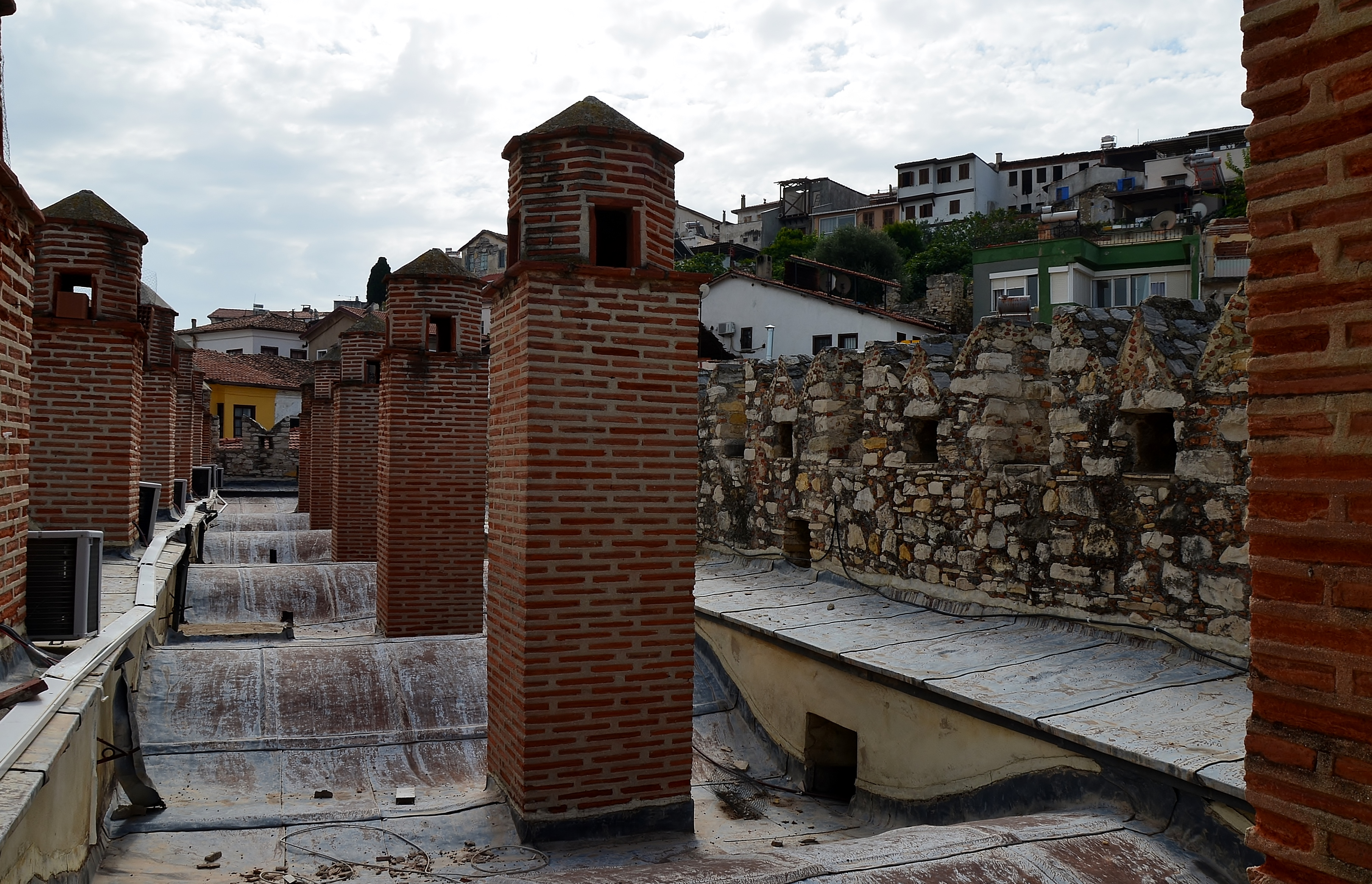 Öküz Mehmed Pasha Caravanserai in Kuşadası, Aydın